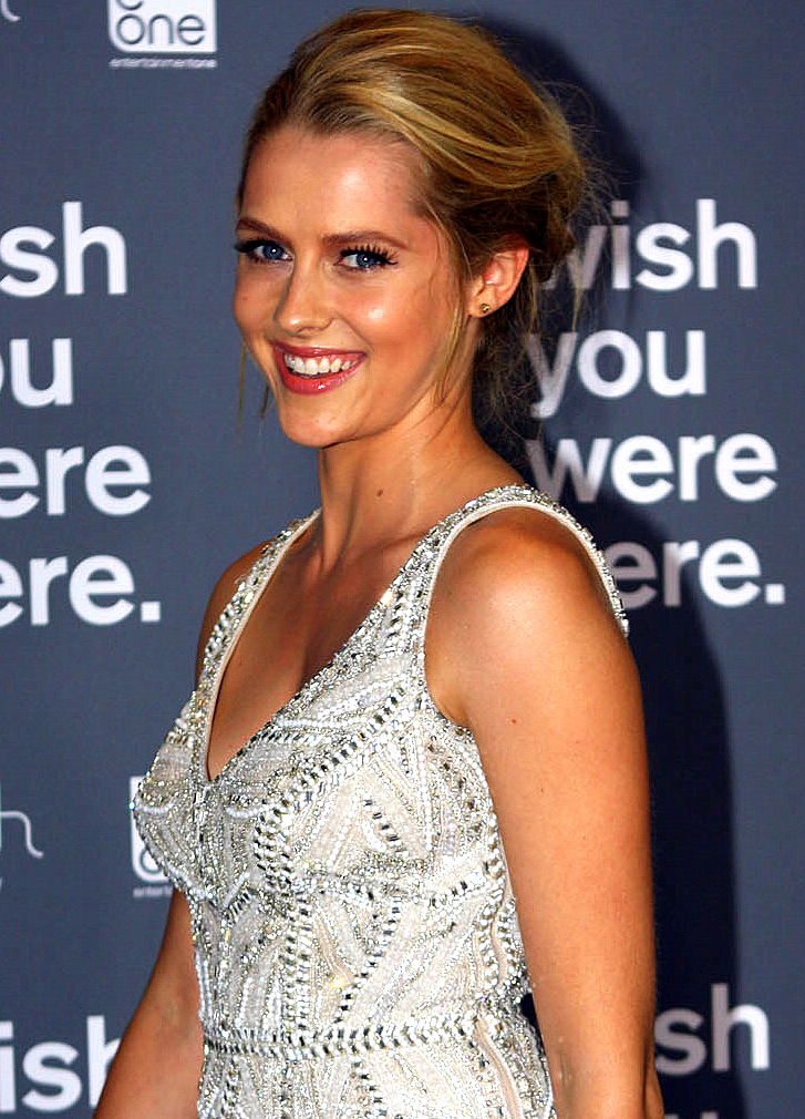 Teresa Palmer at the Wish You Were Here; Australian Premiere 2012.